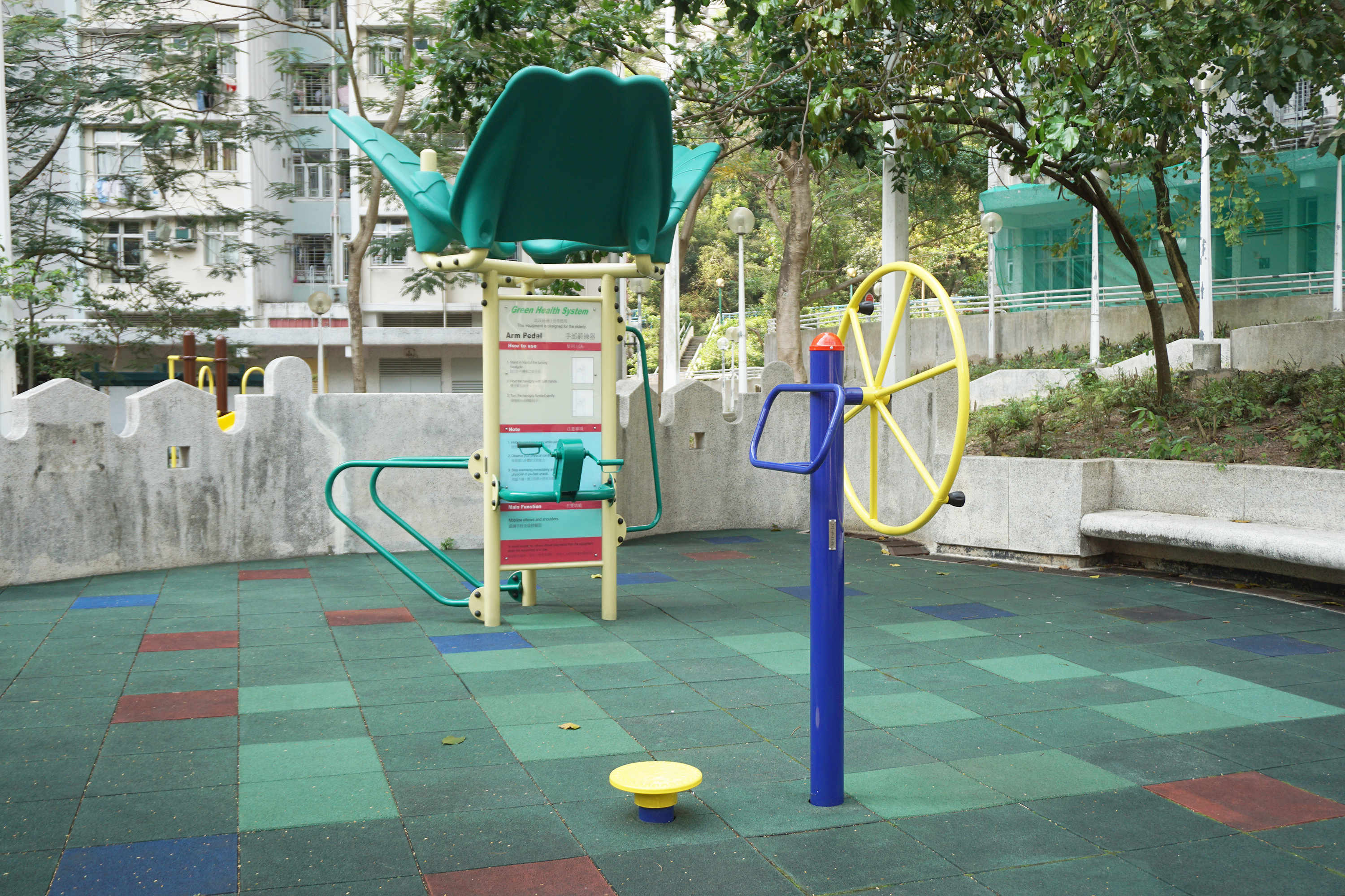 Tsui Ping (North) Estate in Kwun Tong, Hong Kong.